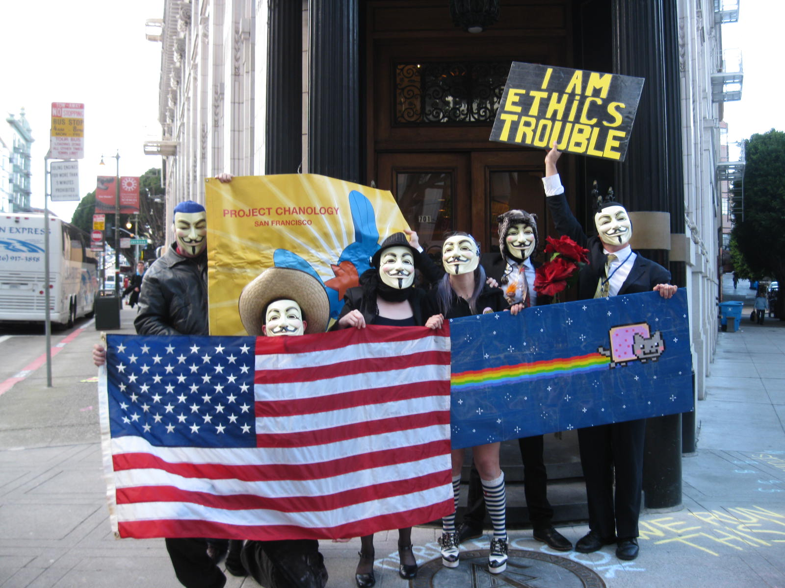 Taken at San Francisco's Ideal Org (Scientology building), as Anonymous protests Scientology abuses